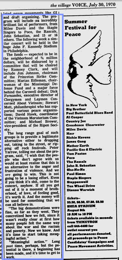 My Photo of concert advertisement The Village Voice dated 08-06-1970